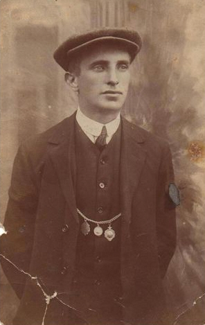 Photograph of 'Tenby Davies'